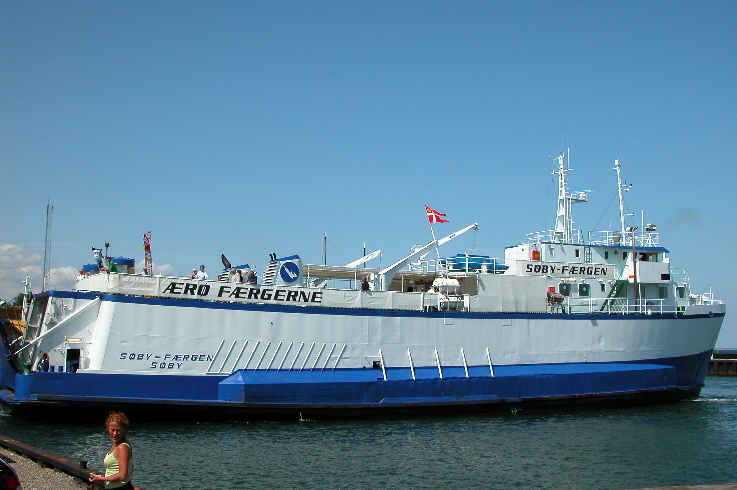 M/F Søby-Færgen 1980-2012, Søby-Fåborg IMO number: 6611667 Callsign: OZRV